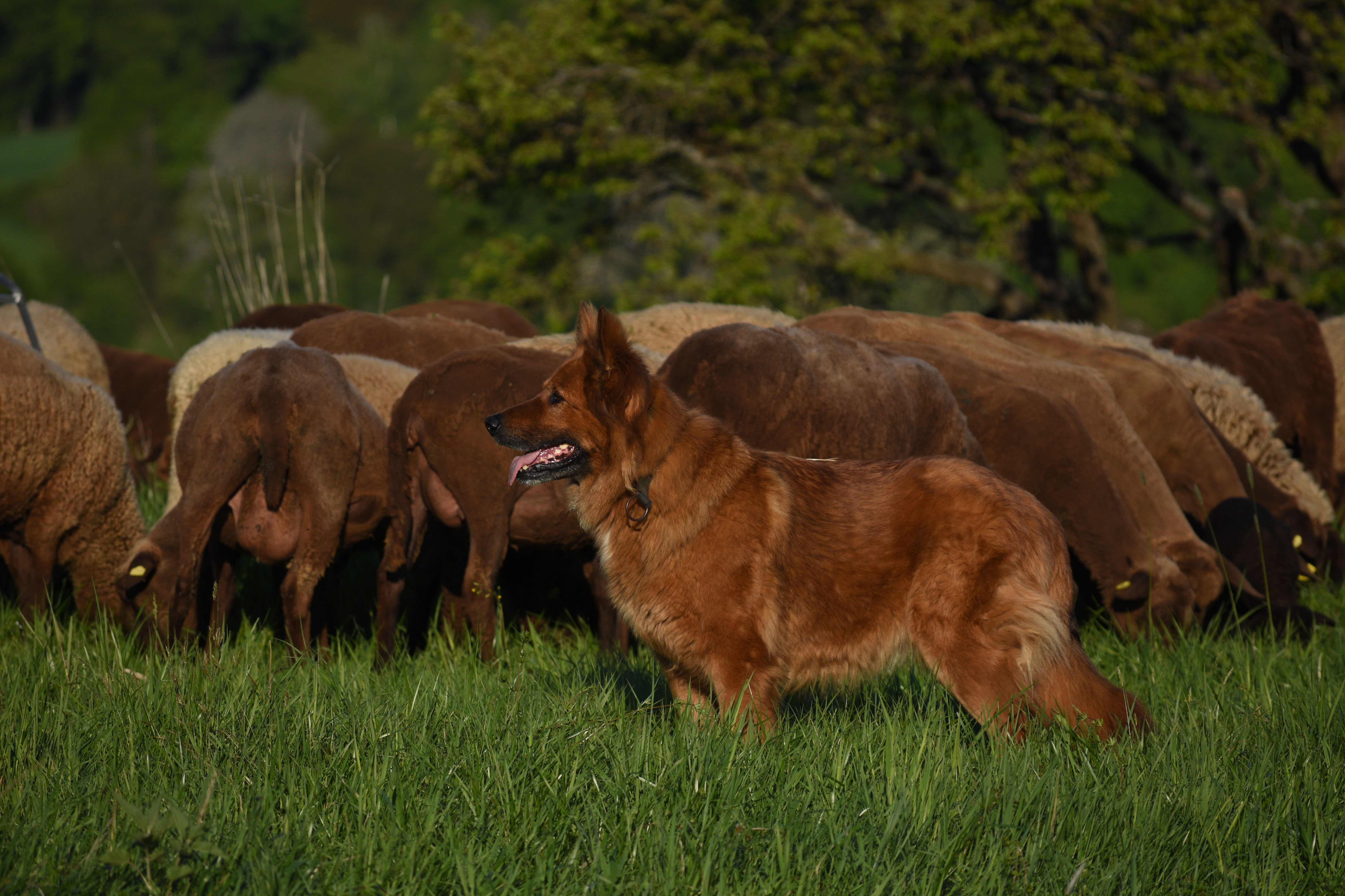 Sheepdog